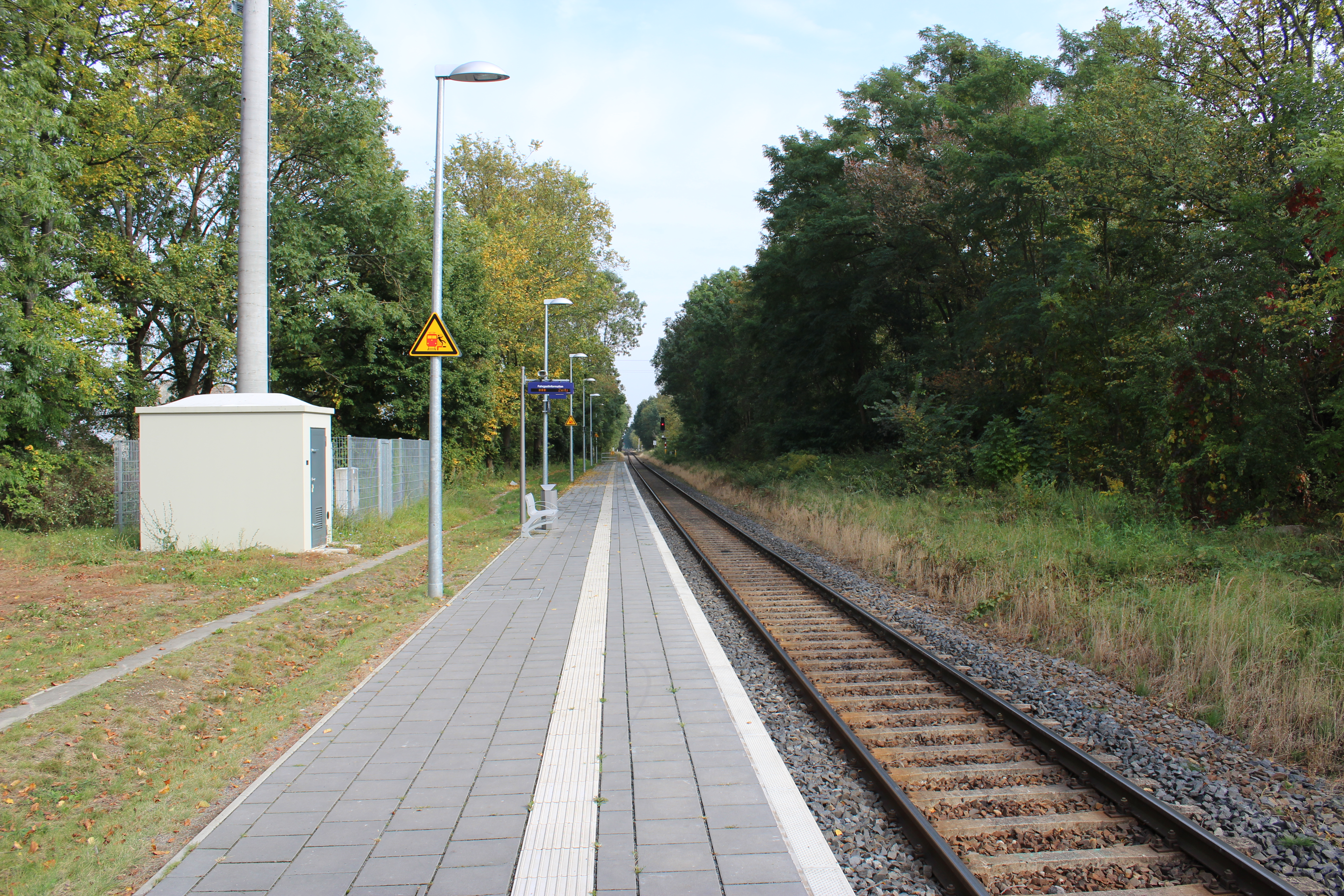 train station Werbig, lower platform